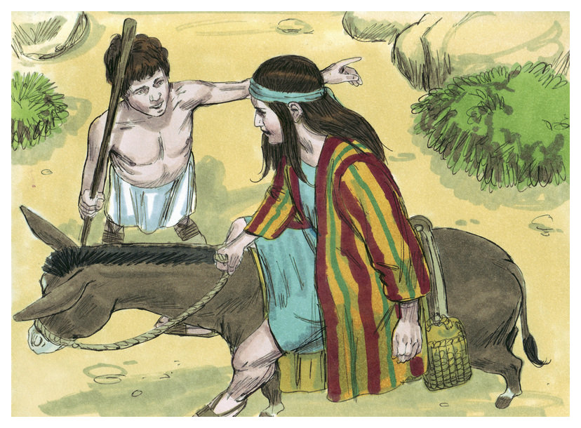 Biblical illustration of Book of Genesis Chapter 37